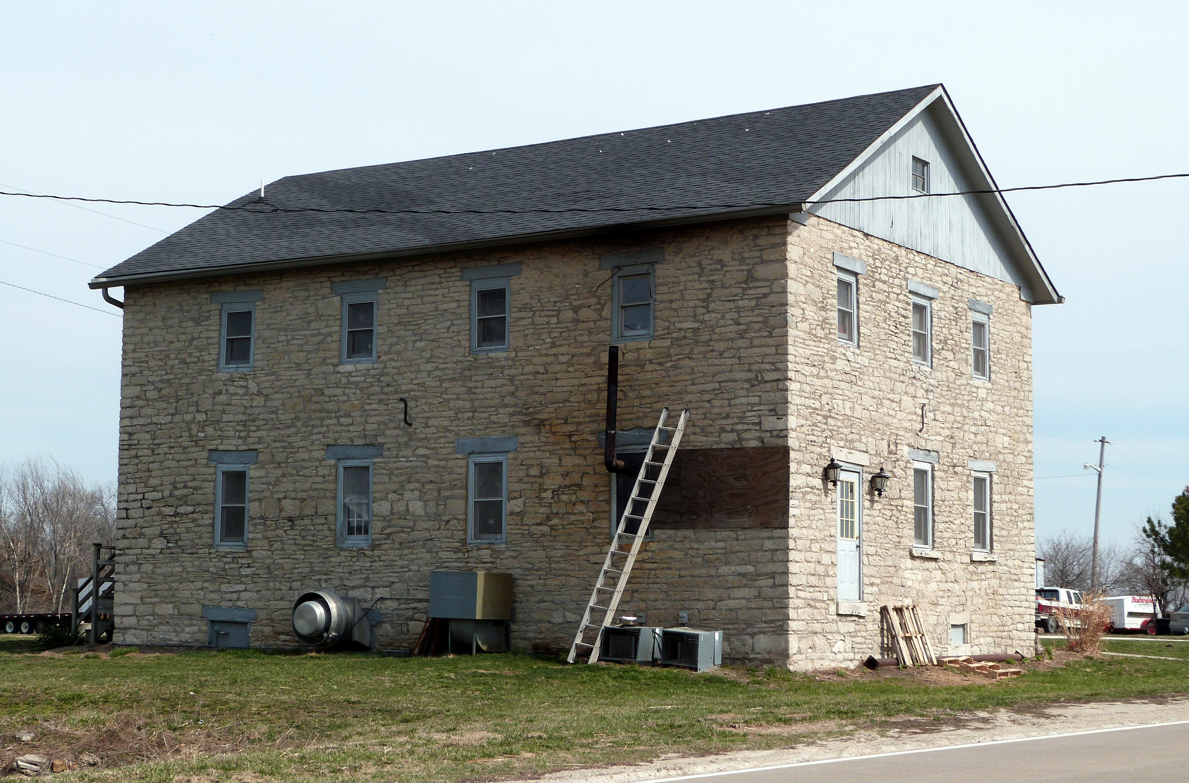 The historic Dennis Melcher Pottery, located at 22982 Agency Road near Danville, Iowa, United States, is listed on the US National Register of Historic Places (along with the accompanying house across the road).